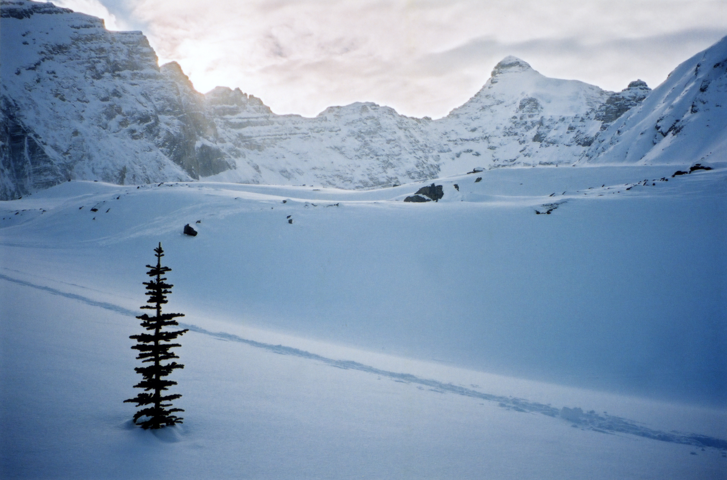 Alpine skiing on Parker Ridge in Banff National Park, near the Columbia Icefields and the Jasper National Park boundary.